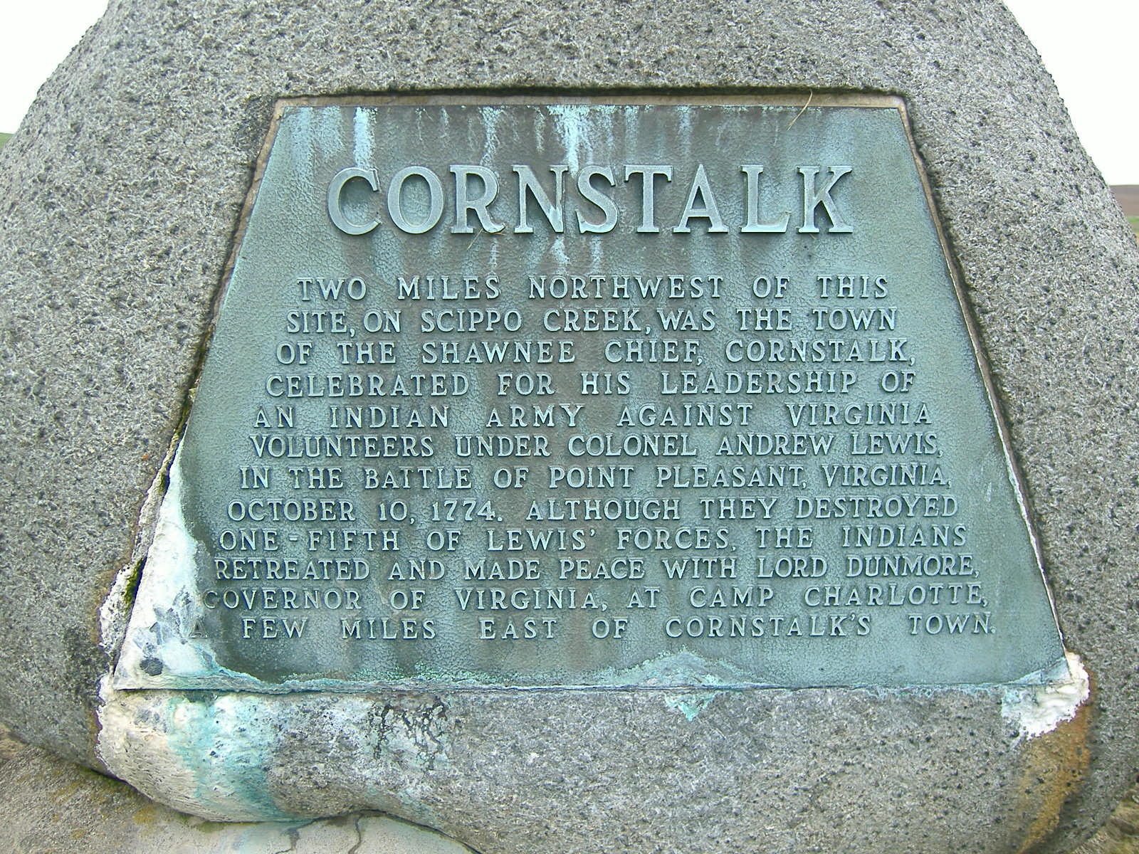 Cornstalk monument